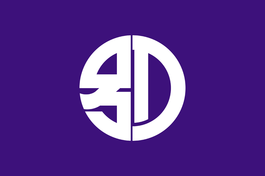 Flag of Beppu, Oita